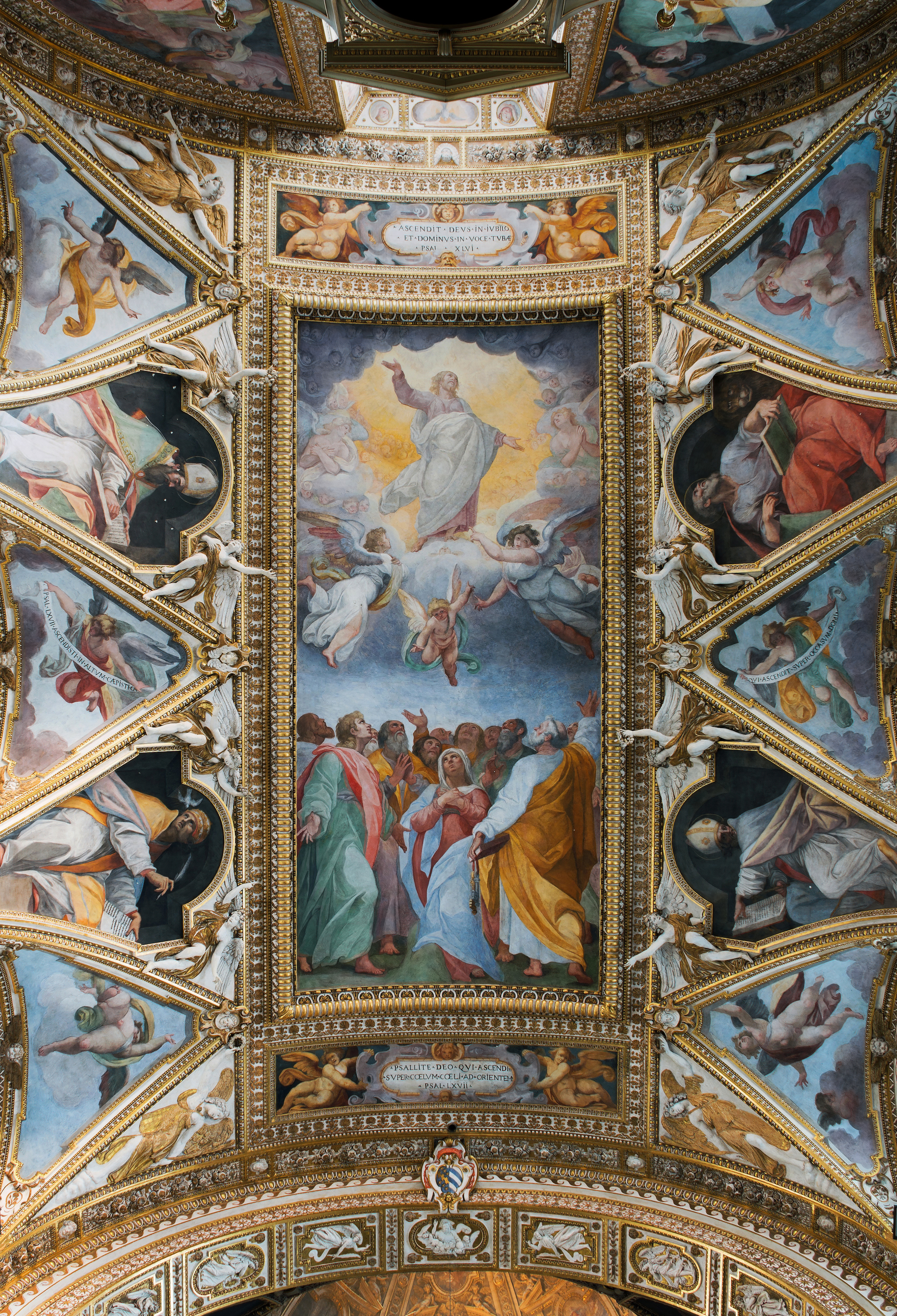 Ceiling of Santa Maria ai Monti (Rome)